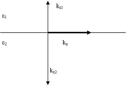 Coordinate system for 2 material interface